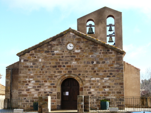 Saint-Mamès church, Boutenac, Aude, France